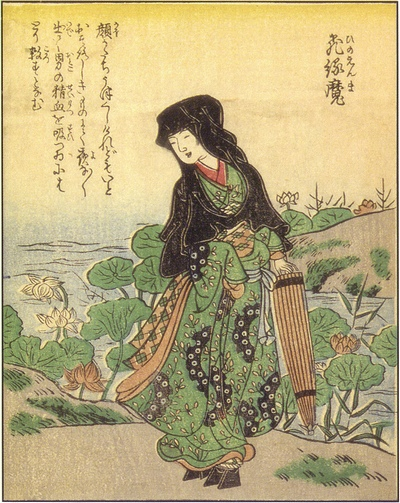 Hienma (飛縁魔) from the Ehon Hyaku monogatari (絵本百物語)